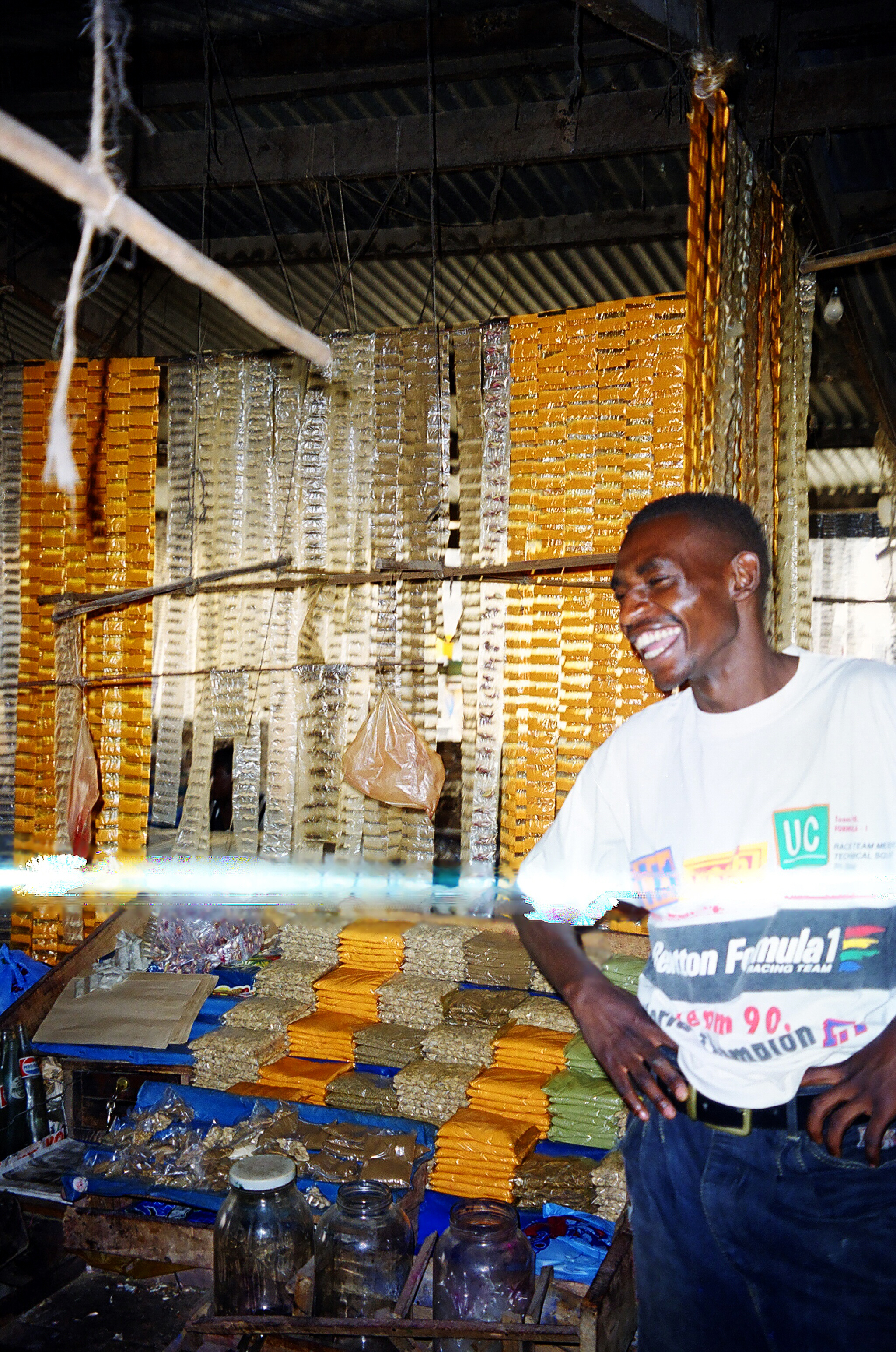 A man selling spices at a small duka (outdoor shop) in Iringa, Tanzania